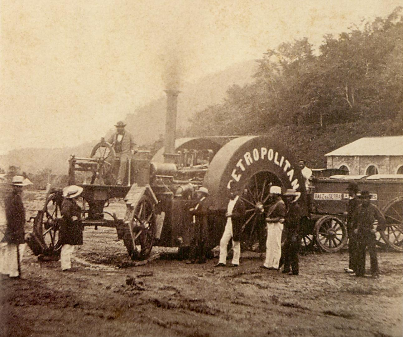 Testing the railroad Mauá´s locomotive in Brazil, 1856.